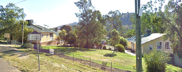 Photo of Wyangala Dam Public School